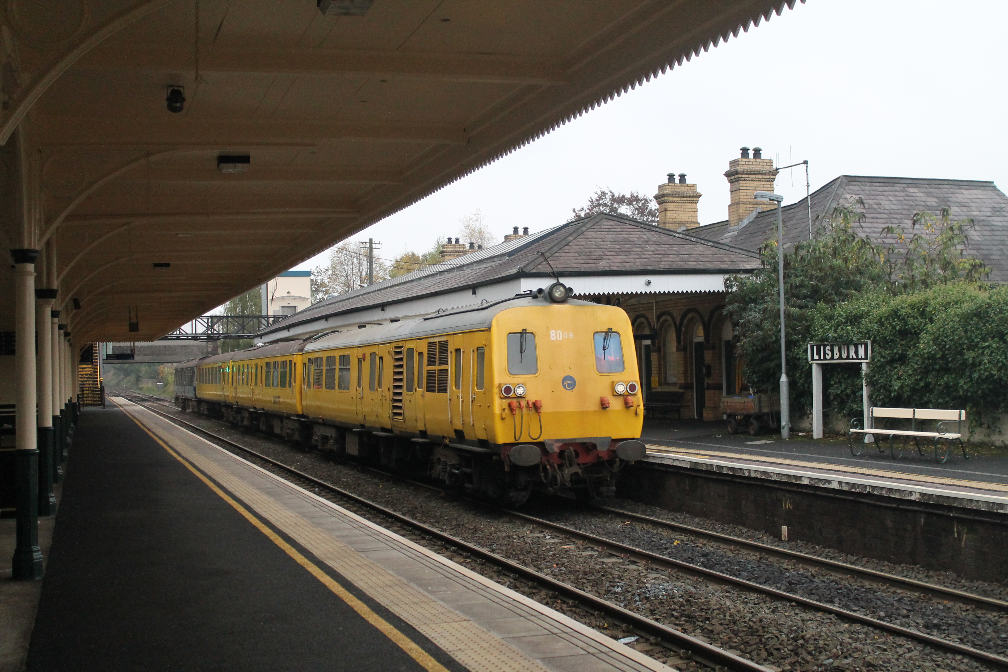 80 Class Sandite Train at Lisburn station